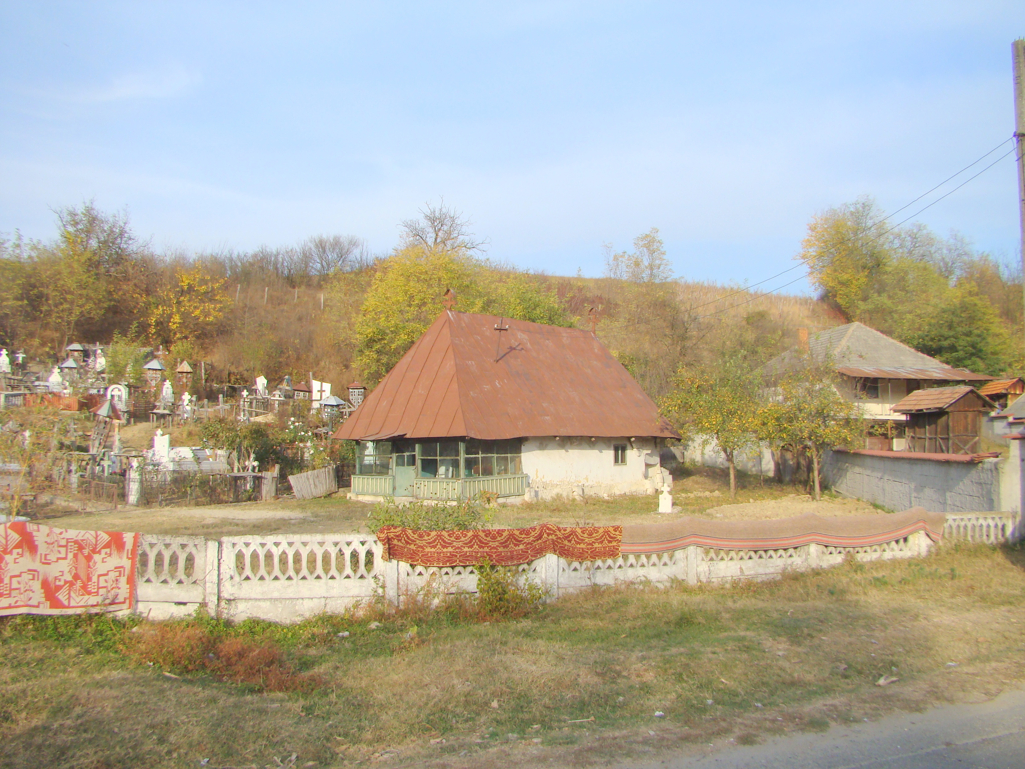 Wooden church in Piscuri, Gorj county, Romania